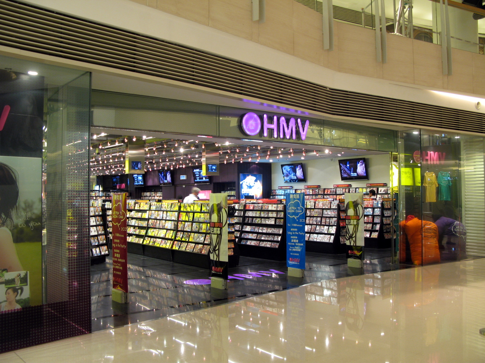 HMV Music Store in Hong Kong Elements Shopping Mall